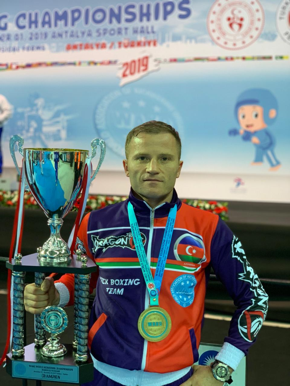 Eduard Mammadov Antalya 2019